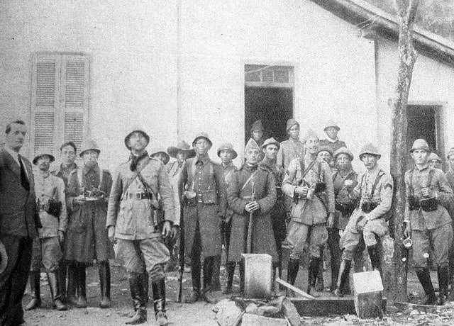 Captain Manuel de Freitas Novaes Neto and his soldiers in a house in front of Mantiqueira Tunnel